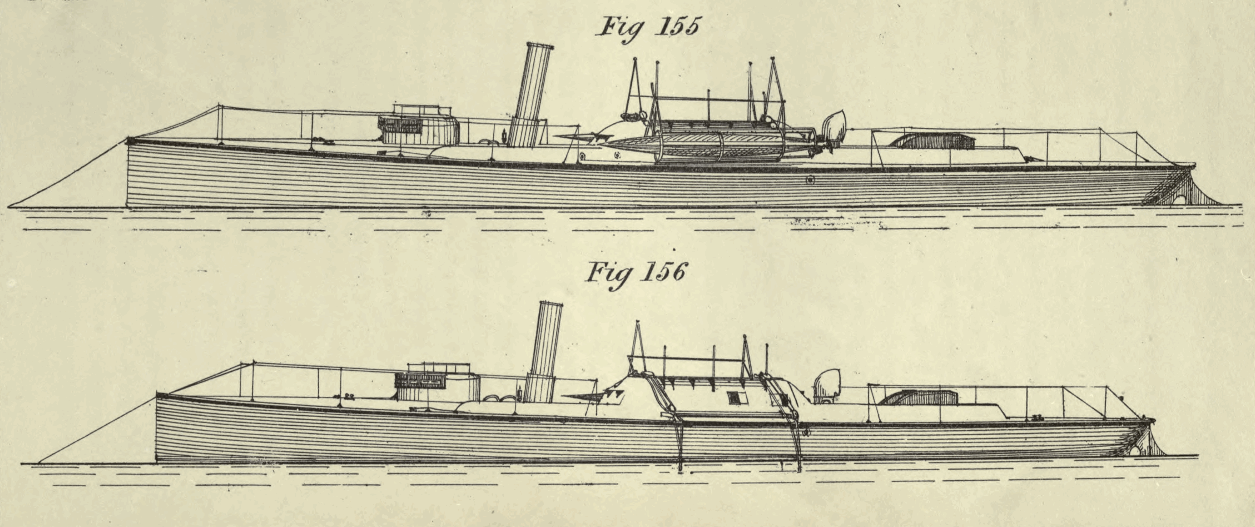 Fig. 155 & 156 of Plate 48 (Thornicroft's Torpedo Boats), showing a "Continental" torpedo boat with torpedo frames of Thornycroft's design, from Charles William Sleeman's book Torpedoes and Torpedo Warfare. This is from the 1880 edition. There is also an 1889 edition, which has been substantially reworked. The complete books are at . This page has been downloaded as part of the "single page processed jp2 zip", and the jp2 format has been saved and cropped as png format using the free FastStone Image Viewer 5.3.